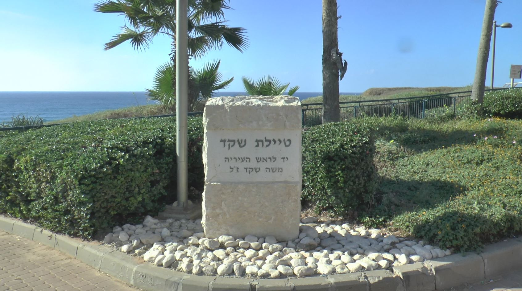 Shaked Promenade ןמ Natanya